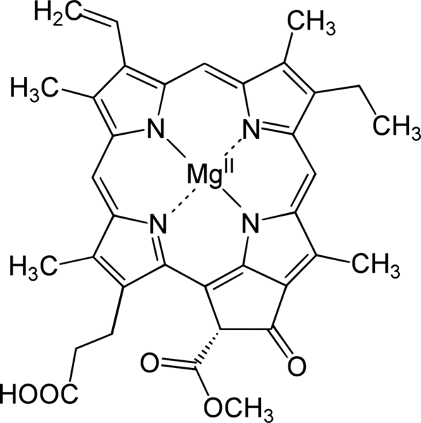 Protochlorophyllide a chemical structure.